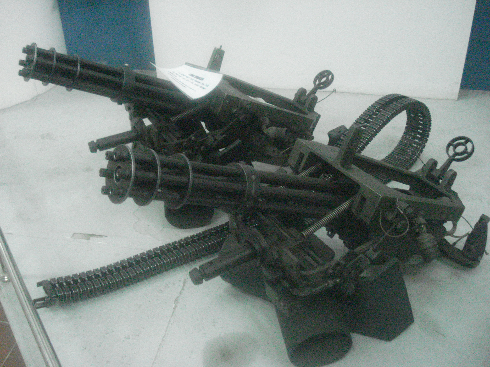 Two M-134 Miniguns